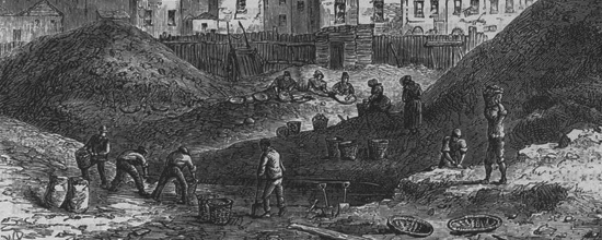 The dust-heaps in Domers Town in 1836, circa 1880